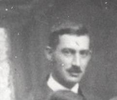 Dimitar Shishmanov, Zlatorog, 1925-1927.